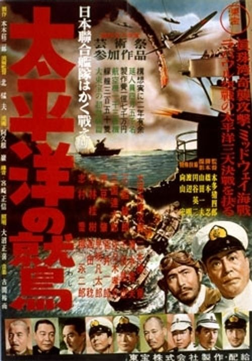 1953 Japanese movie poster for 1953 Japanese film The Eagle of the Pacific (太平洋の鷲 Taiheiyo no washi) aka Operation Kamikaze